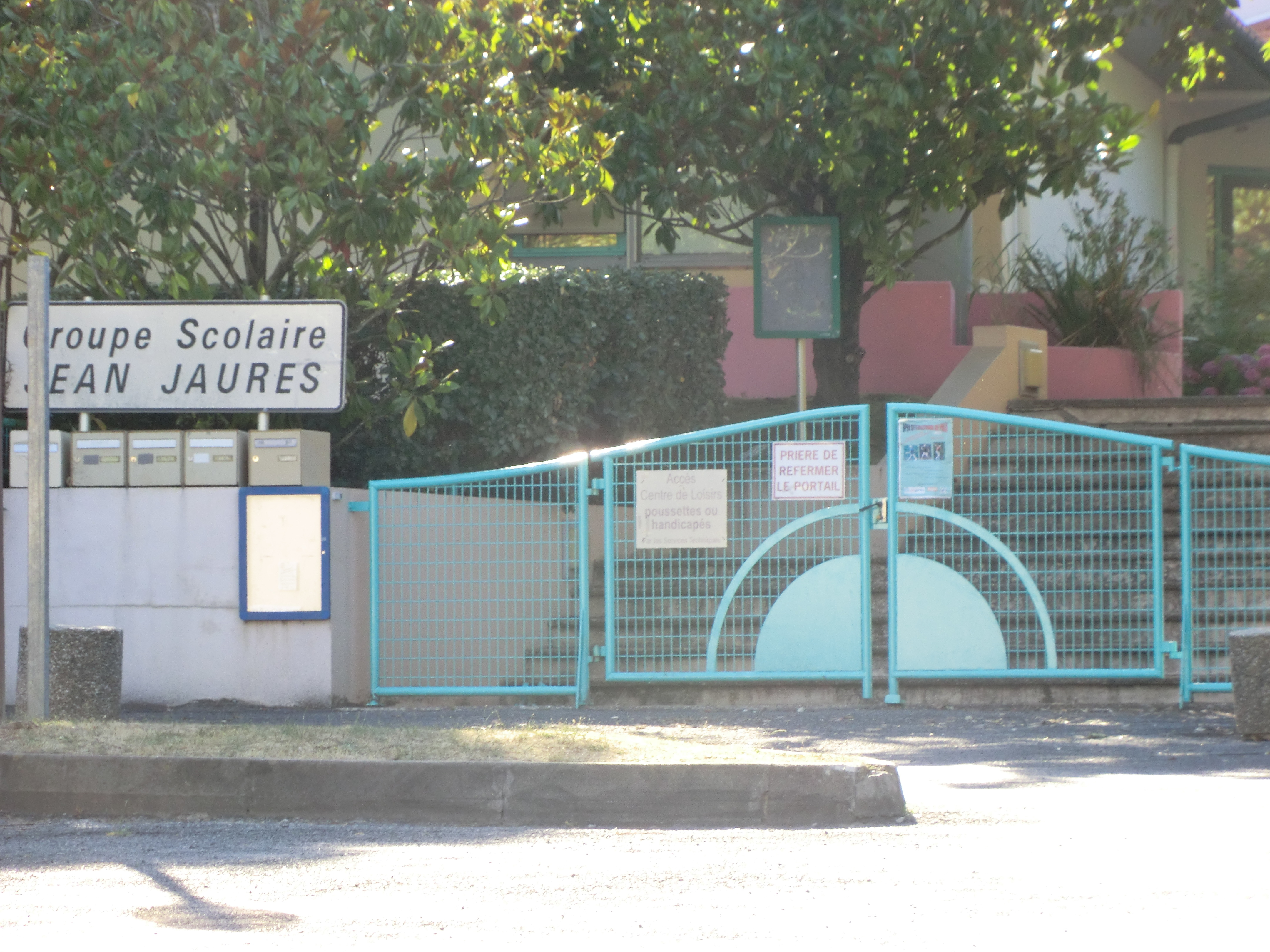 L'école Jean-Jaurès (Saint-Martin-de-Seignanx).